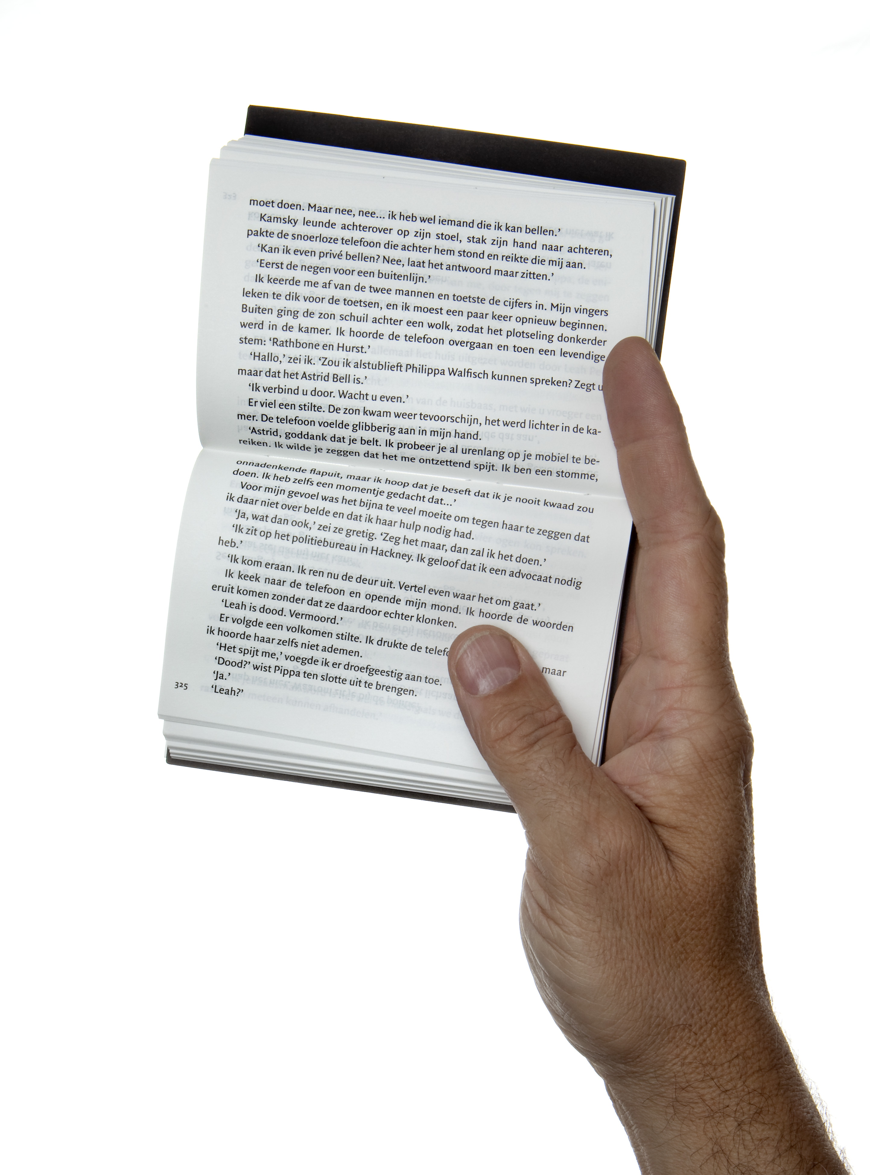 New Book Format 1.3.58 Pienfie 18-09-2009 pienfie permission